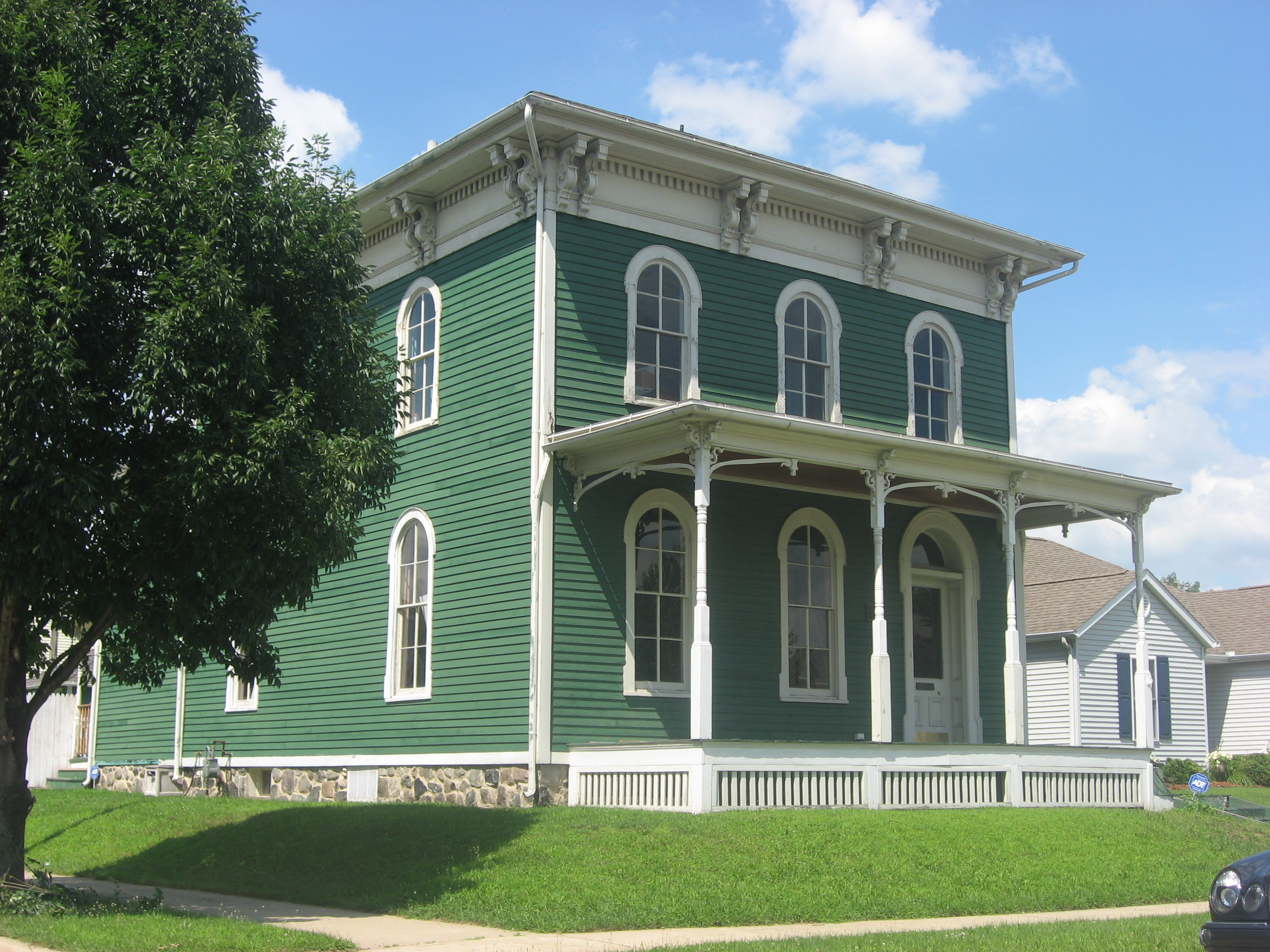 Front and western side of the Martin Wenger Farmhouse, located at 701 E. Pennsylvania Avenue in South Bend, Indiana, United States. Built in 1851, it is listed on the National Register of Historic Places.